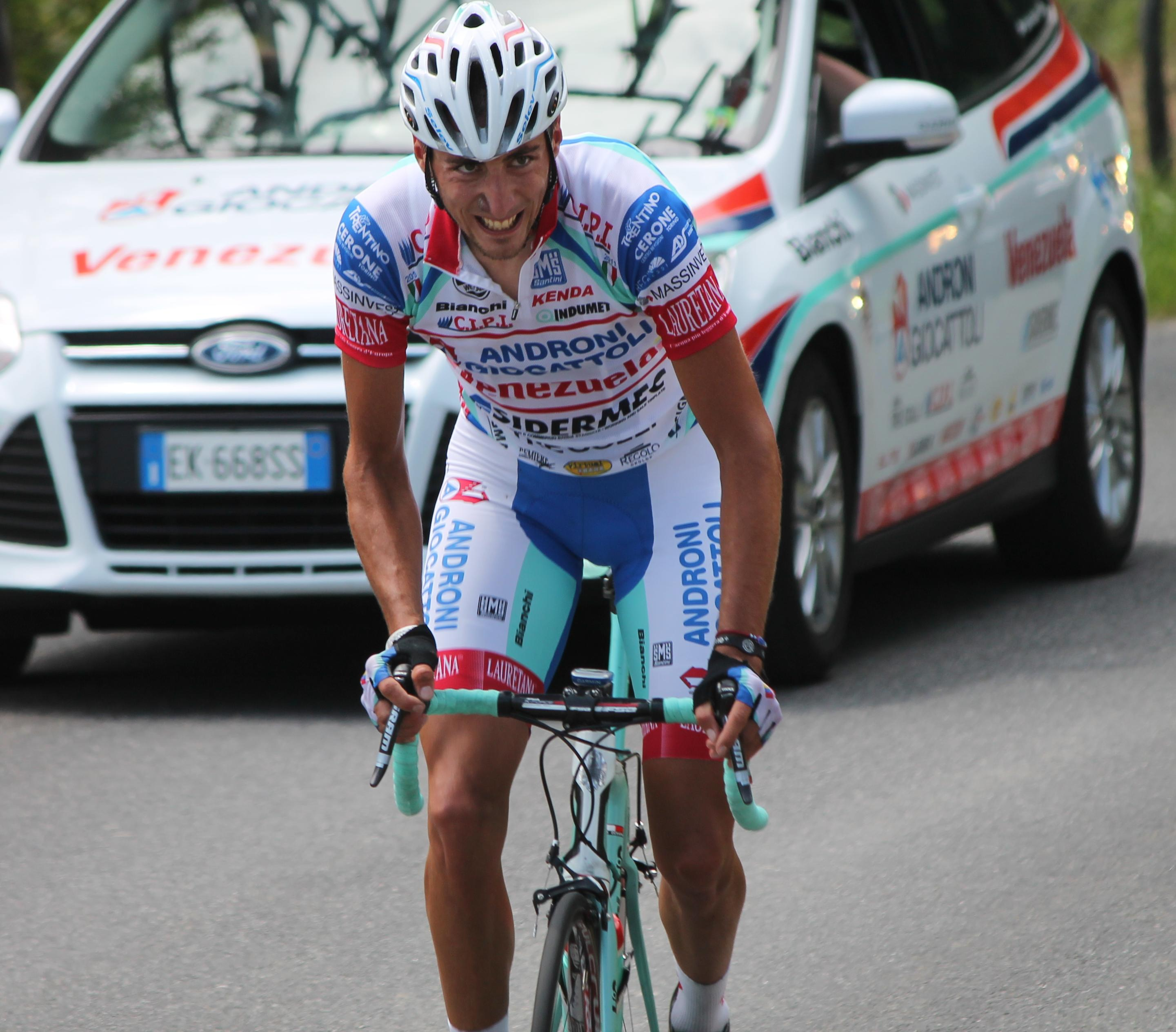 Riccardo Chiarini is climbing the Col de Spandelles during the third stage of 2012 Route du Sud.